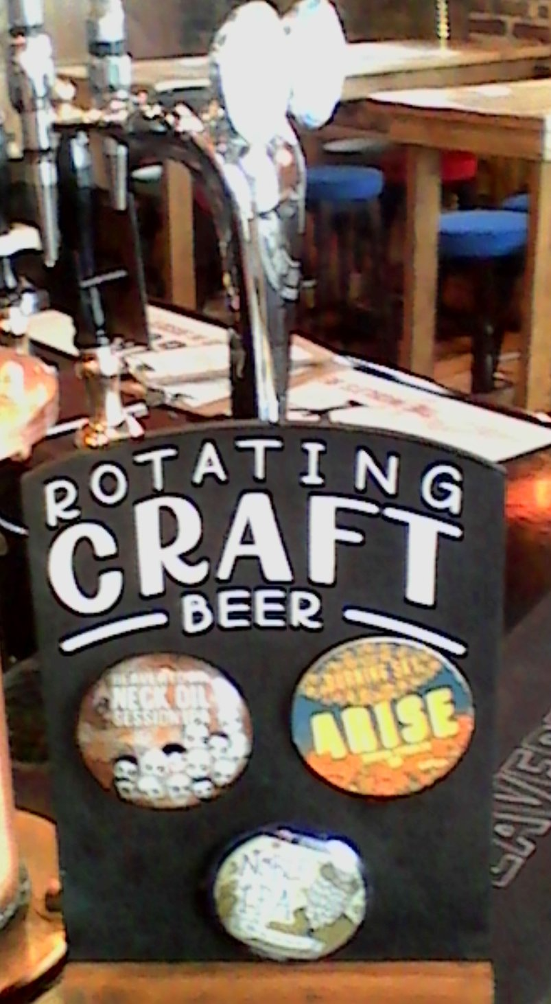 Sign advertising craft beer, English Pub, April 2016